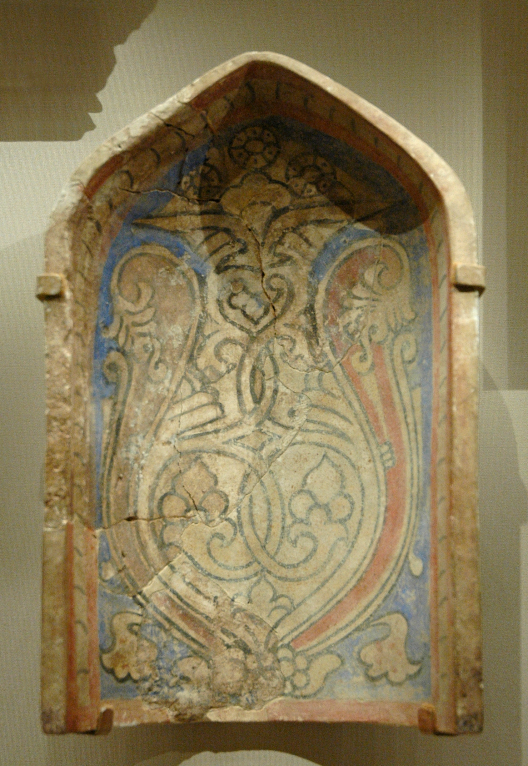 Muqarna (honeycomb-like Islamic architectural element). Painted plaster, 10th century, Nishapur. Metropolitan Museum of Art (MET 38.40.252).